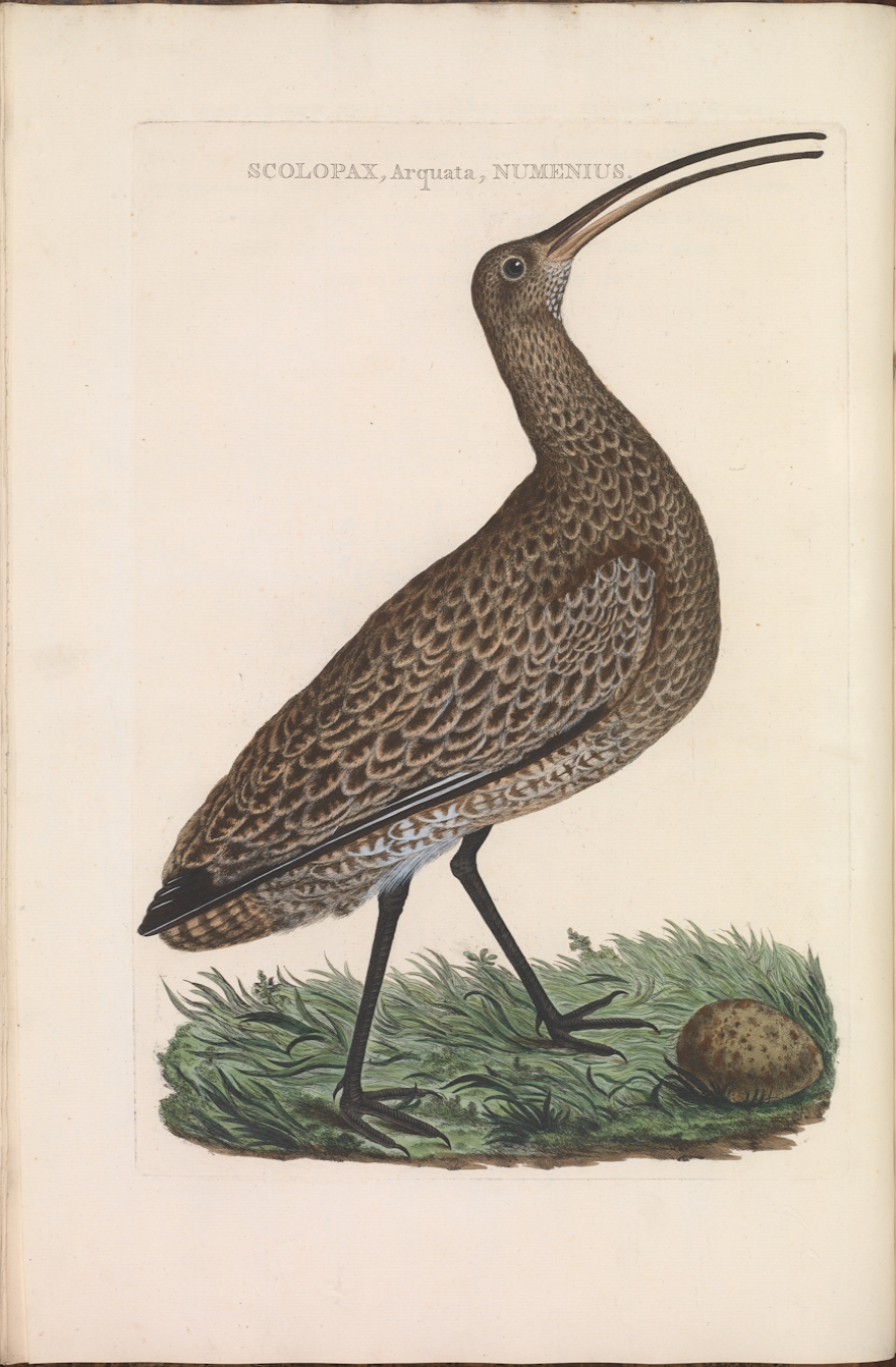 Plate 58 from the Nederlandsche vogelen by Nozeman and Sepp.